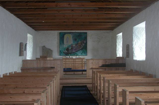 Saint Olav's church, Kirkjubøur. The stone in the back left is the Kirkjubøur runestone.